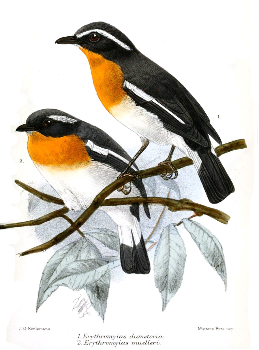 Erythromyias dumetoria (above) and Erythromyias muelleri (below) = Ficedula dumetoria, Rufous-chested Flycatcher